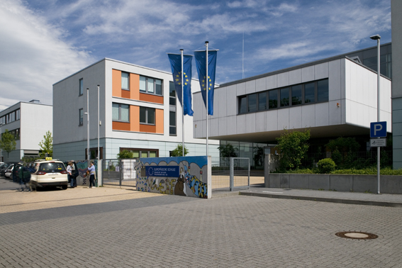 European School, Frankfurt with EU flags flying outside.